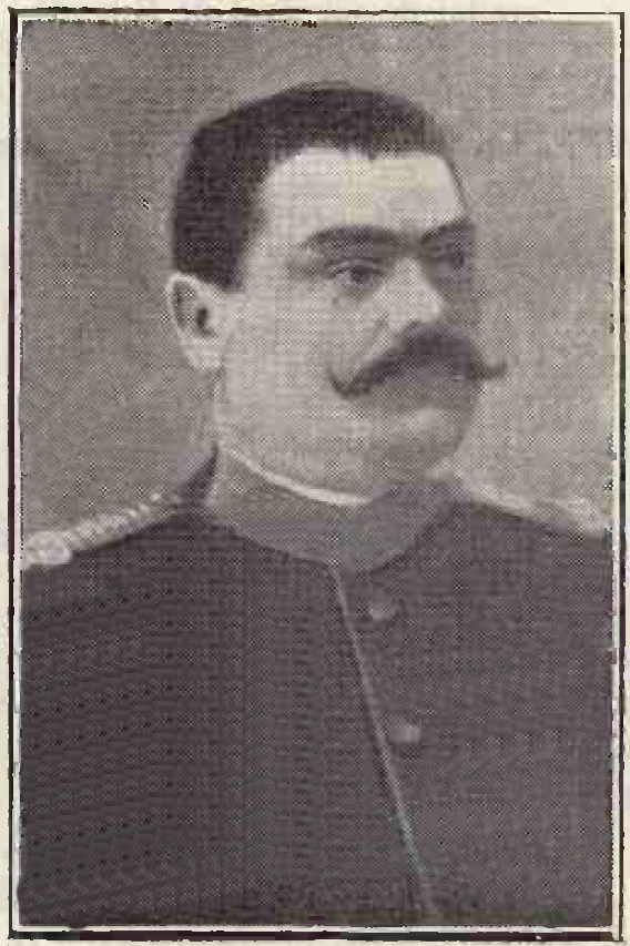 General Paraschiv Vasilescu - infantry division commander during the WW I.